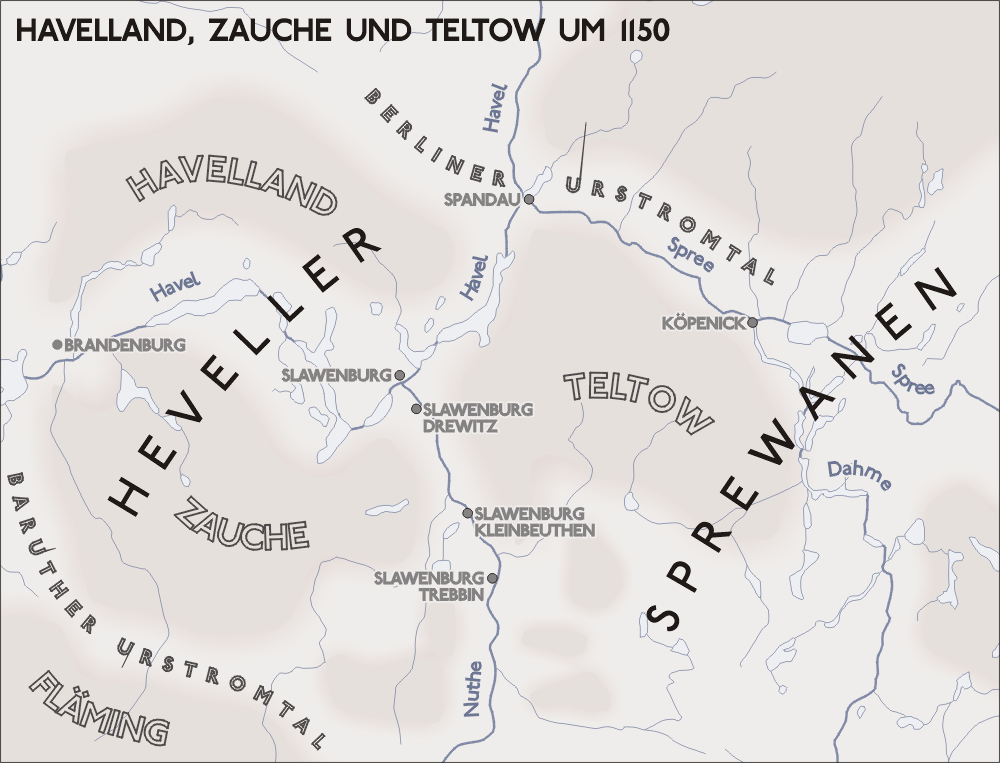 Settlements of the Slawic tribes in the Nordmark about 1150